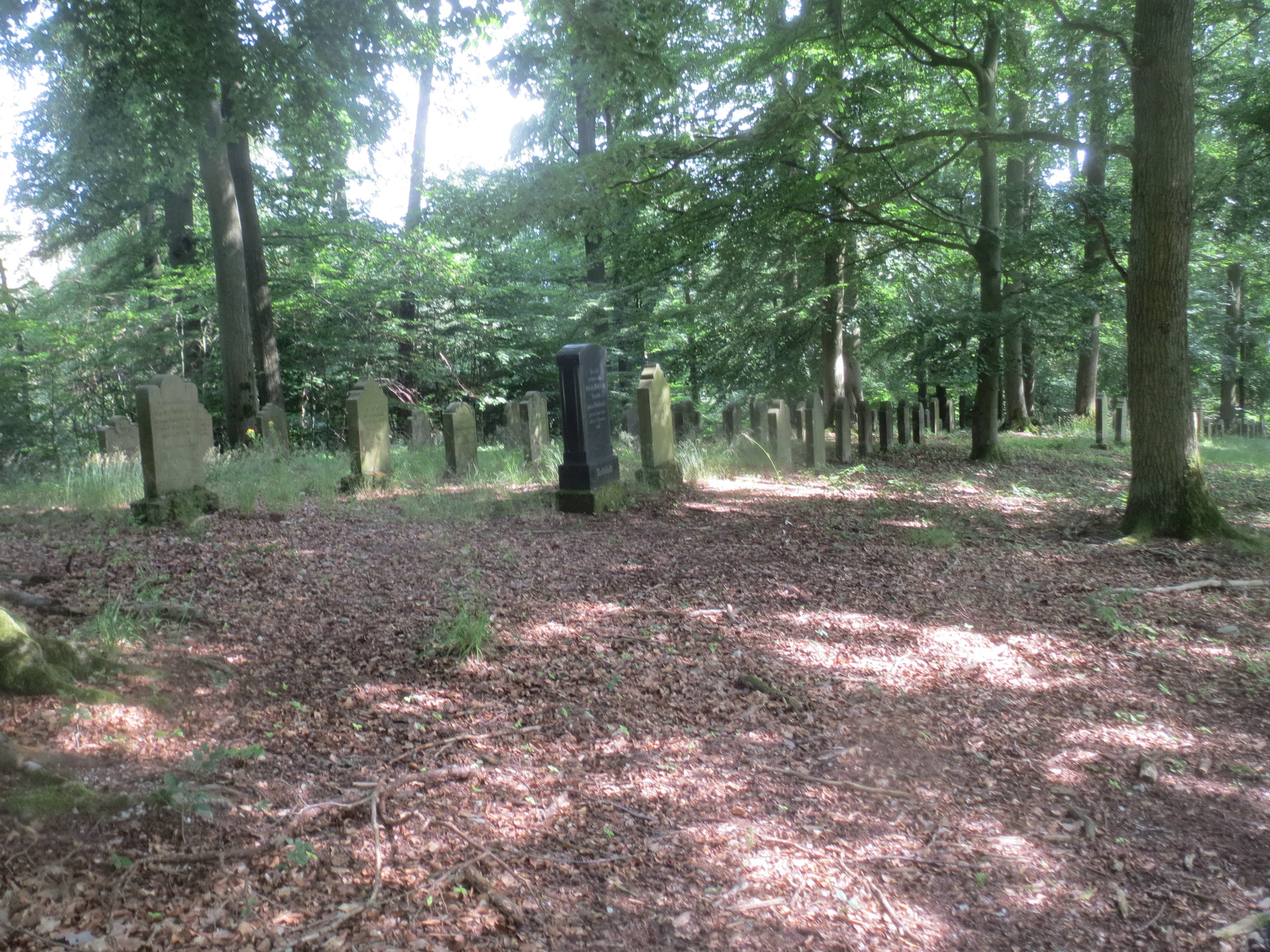 Old Jewish cemetery in Harmuthsachsen